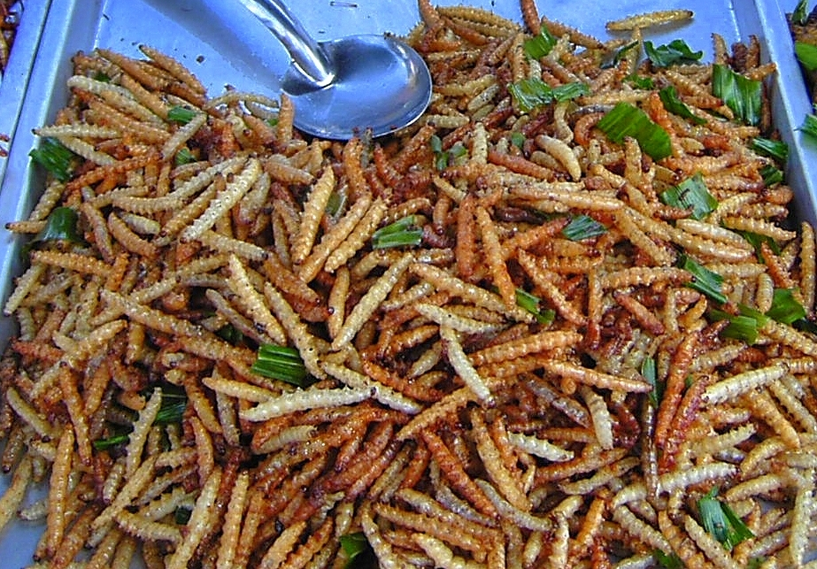 Deep fried bamboo worms on a plate